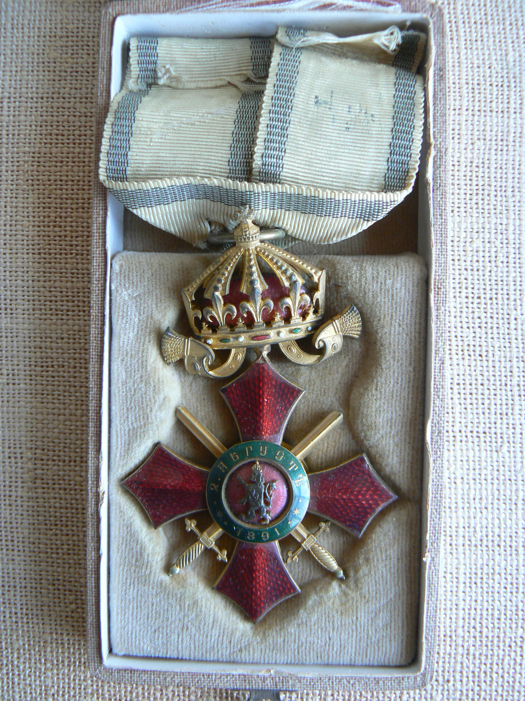 Bulgarian order "For military service". Exhibit of the Belogradchik historical museum.